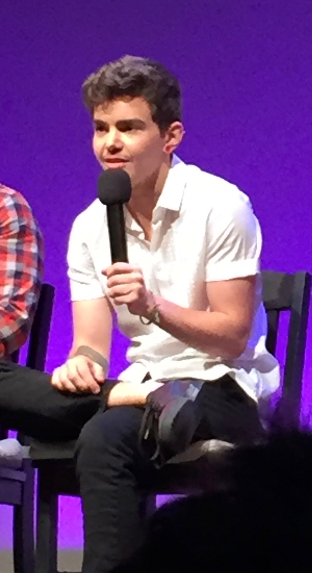 A photo of Elliot at a Faking It fan panel at the West Hollywood LGBT Center